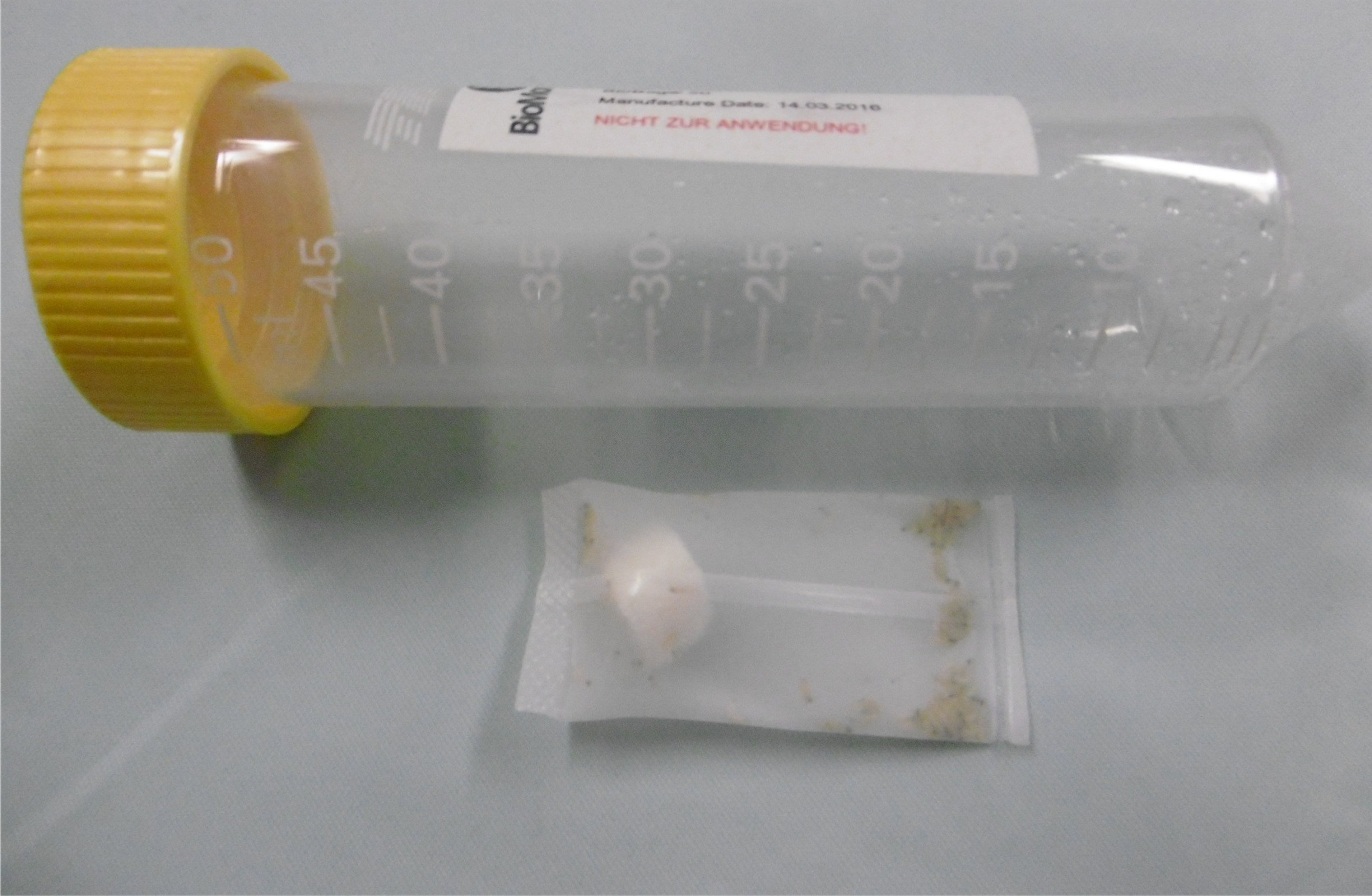 Maggots in BioBag for larvae therapy